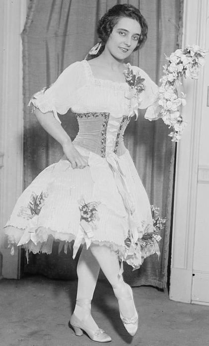 Rosina Galli (1896-1940), italian dancer and choreographer - Original image cropped (see source)